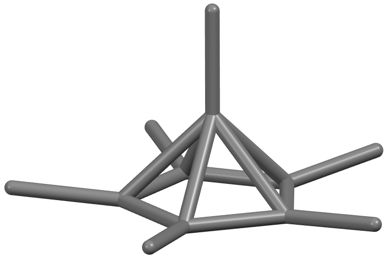 3D carbon-connectivity/framework of the dication of hexamethylbenzene. The three hydrogen atoms have been omitted from the methyl groups (at the end of each of the six "dead-end" bonds, as in a skeletal diagram). Coordinates taken from Supplementary Info page S17 of (2017). "Crystal Structure Determination of the Pentagonal-Pyramidal Hexamethylbenzene Dication C6(CH3)62+". Angewandte Chemie International Edition 56 (1): 368–370.